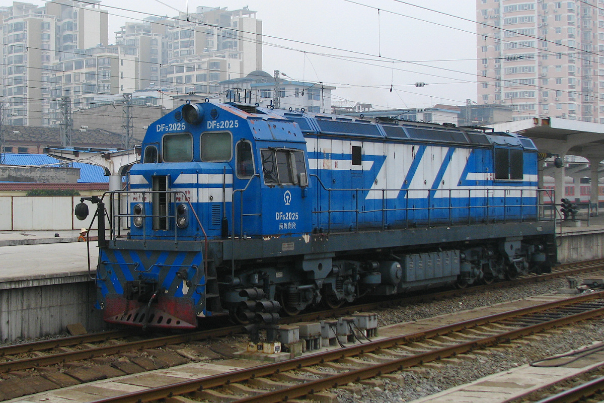 A China Railways DF5 (improved version) diesel locomotive in Nanchang Railways Station.